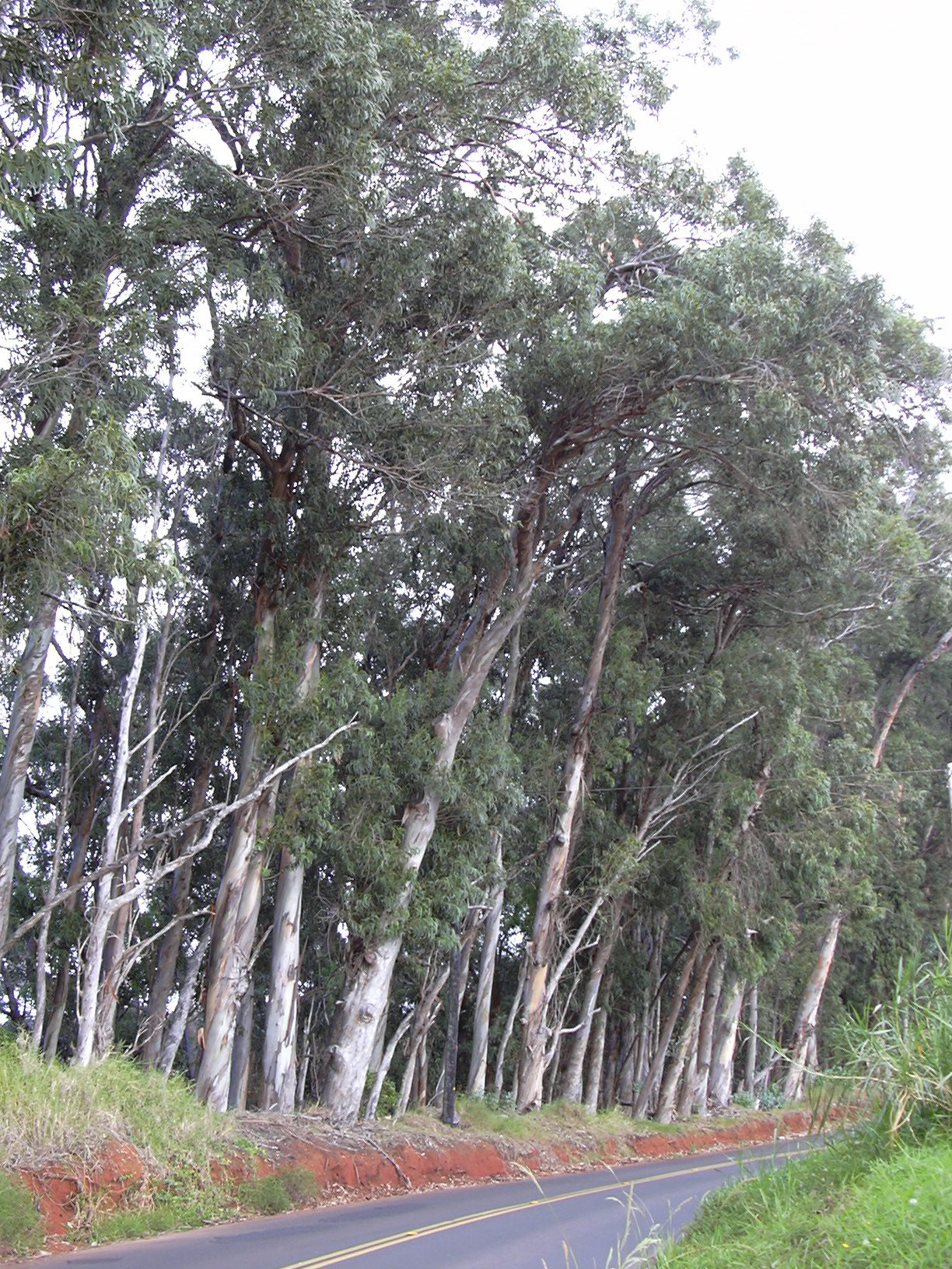 Eucalyptus globulus (habit). Location: Maui, Piiholo